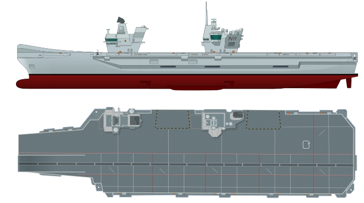 Plan views of the British Queen Elizabeth aircraft carrier